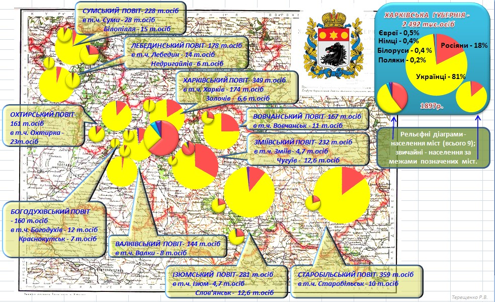 The population of Kharkov province according to the census in 1897